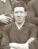 Walter Lynch, former footballer.